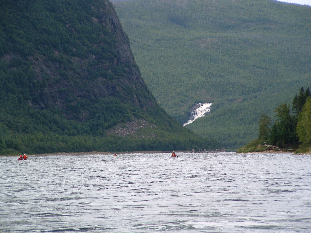 Paddling Moisie (2006 canoe trip)